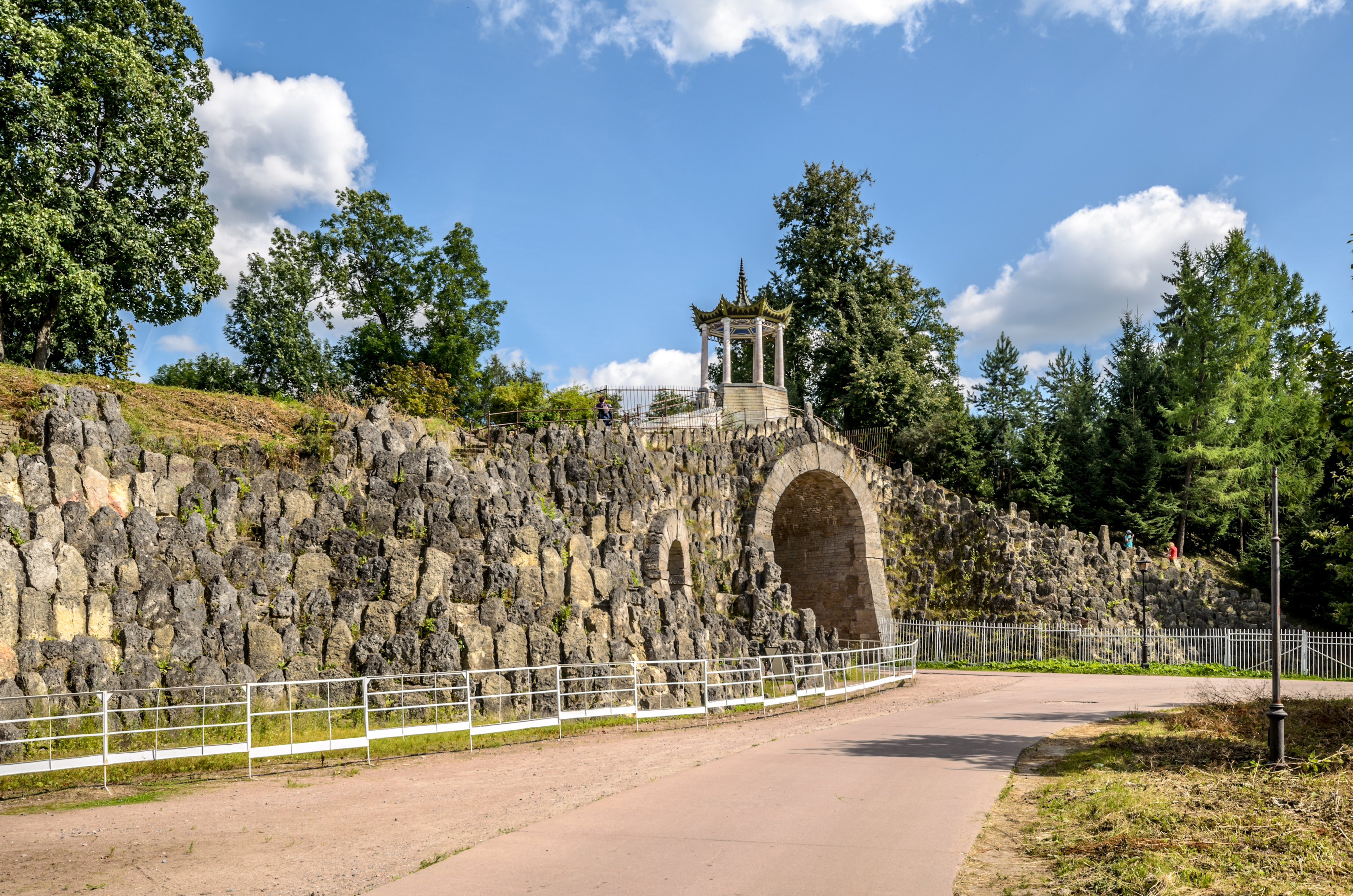 Grand Folly (Caprice)in Tsarskoe Selo in Alexandrovsky Park of Tsarskoe Selo